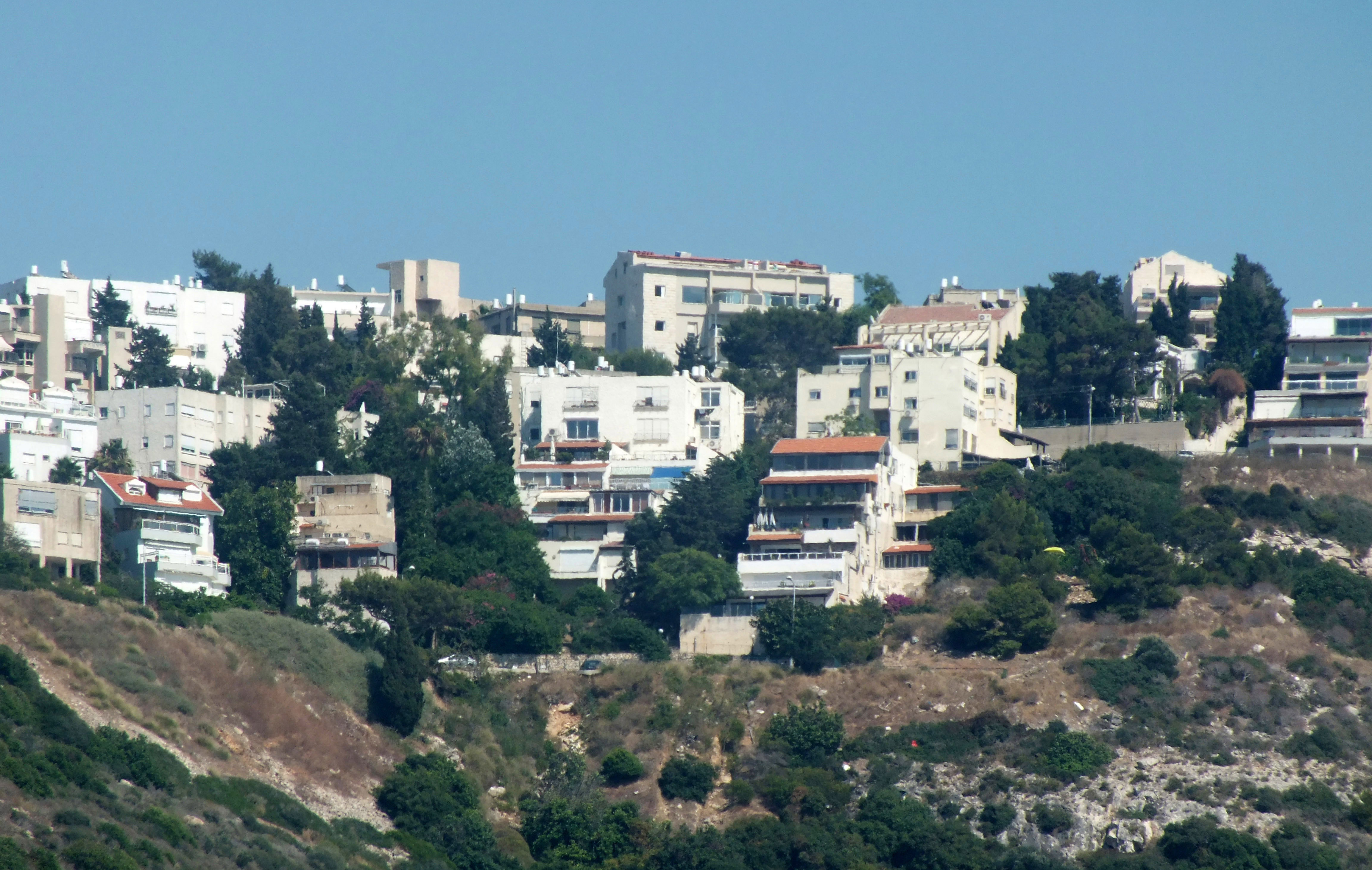 Carmeliya, Carmel, Haifa.